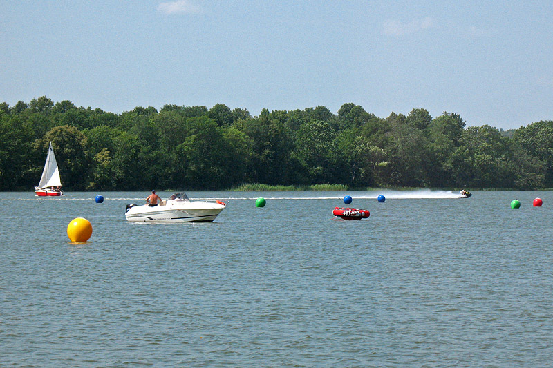 Poland, Warmian-Masurian Voivodeship, Ełckie Lake